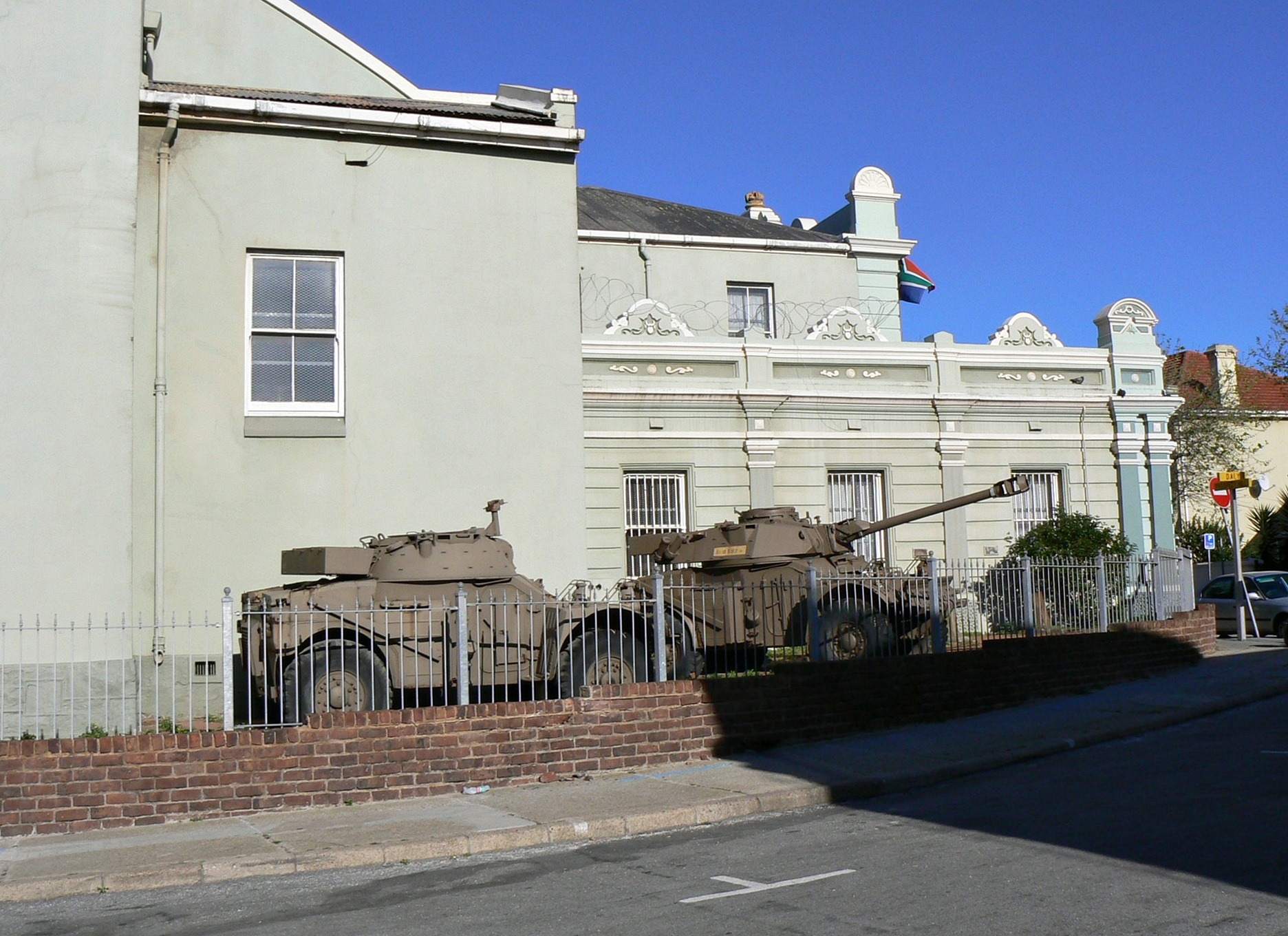 Old Armoured Cars outside the Prince Alfred's Guard Drill Hall, Prospect Hill, Port Elizabeth, South Africa This media shows a South African Protected Site with SAHRA file reference 9/2/073/0046.